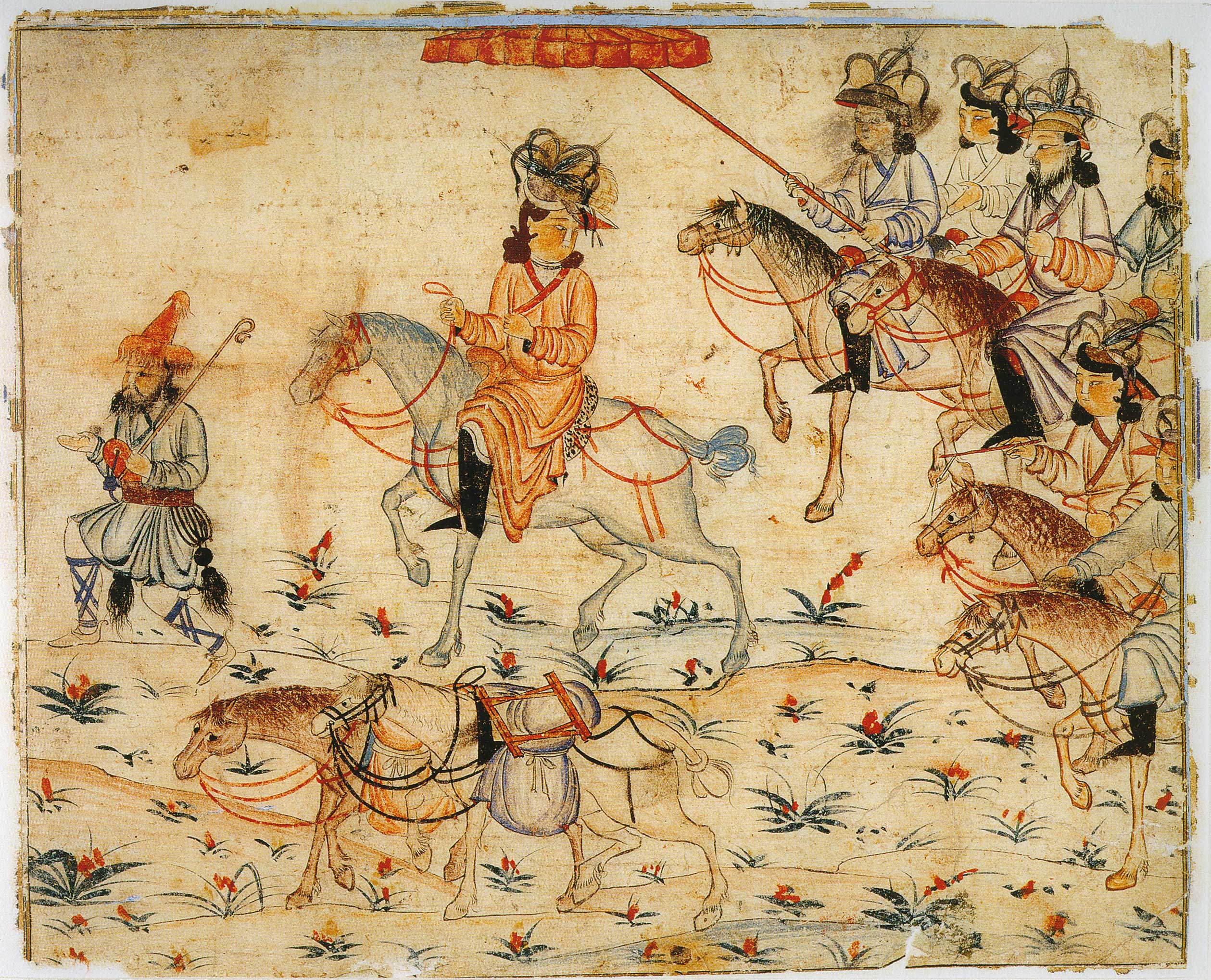 Ruler on his way through the country. Illustration of Rashid-ad-Din's Gami' at-tawarih. Tabriz (?), 1st quarter of 14th century. Water colours on paper. Original size: 22 cm x 26.2 cm. Staatsbibliothek Berlin, Orientabteilung, Diez A fol. 71, p. 50. The pedestrian in front seems to carry a paiza, a sign that identifies persons on official duty.